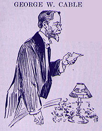 George Washington Cable giving a lecture, 1905